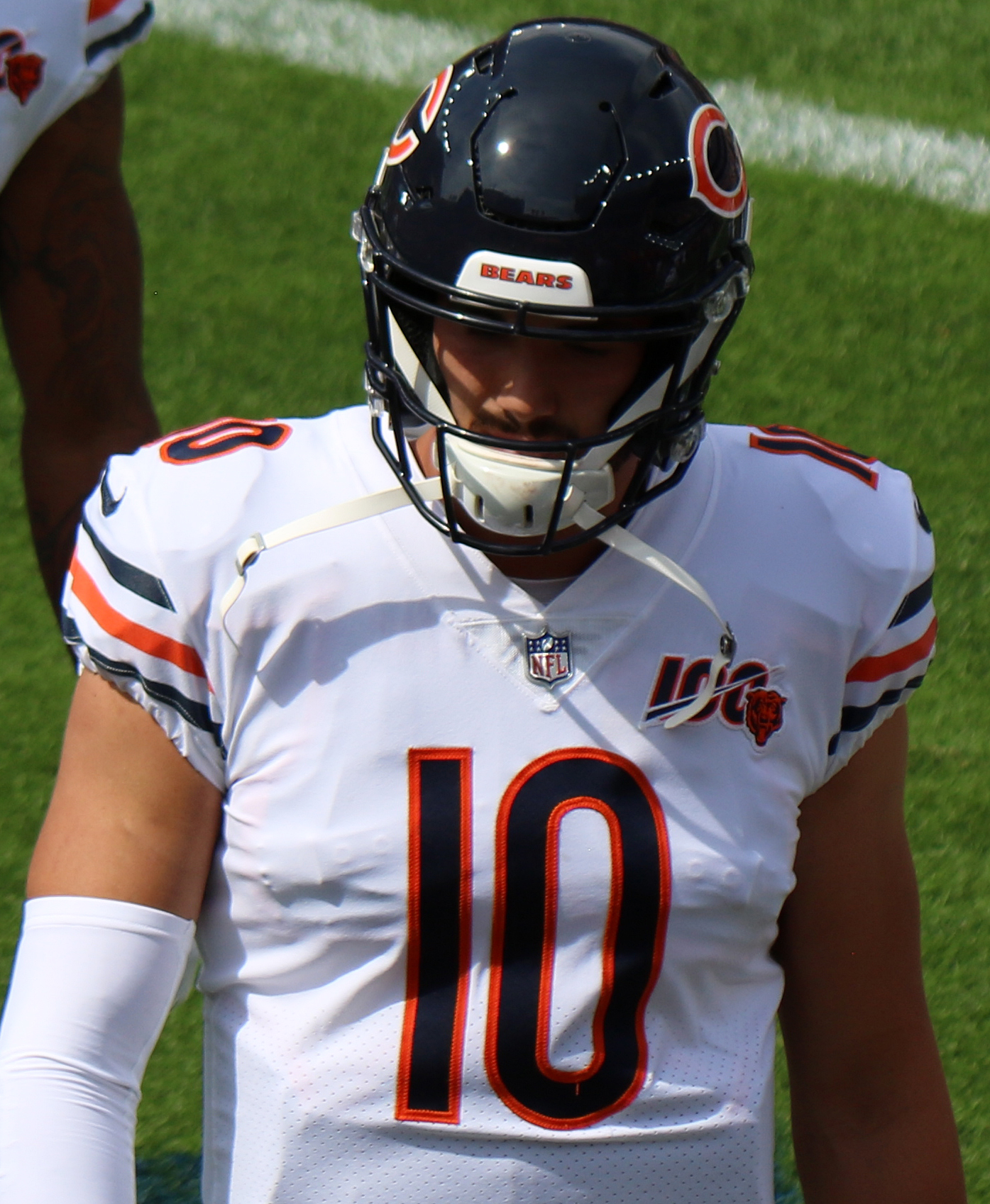 Mitchell Trubisky, a National Football League player.